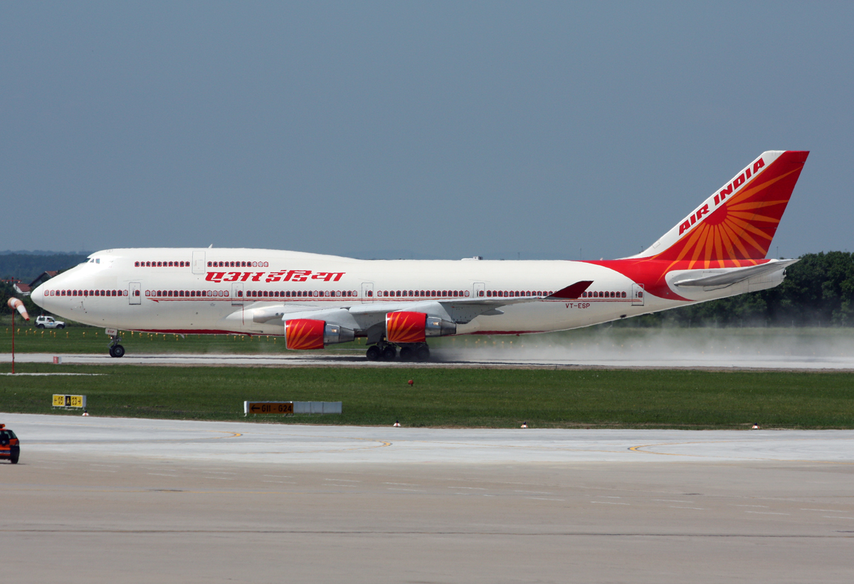 Air India in Zagreb.